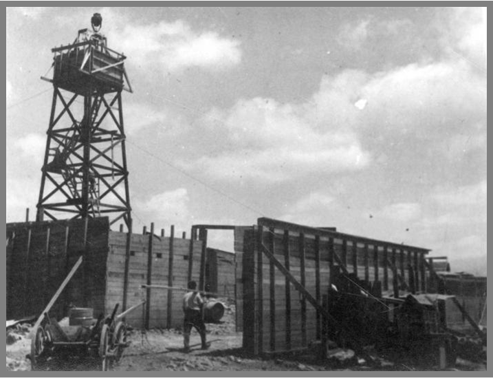 Settlements in Israel